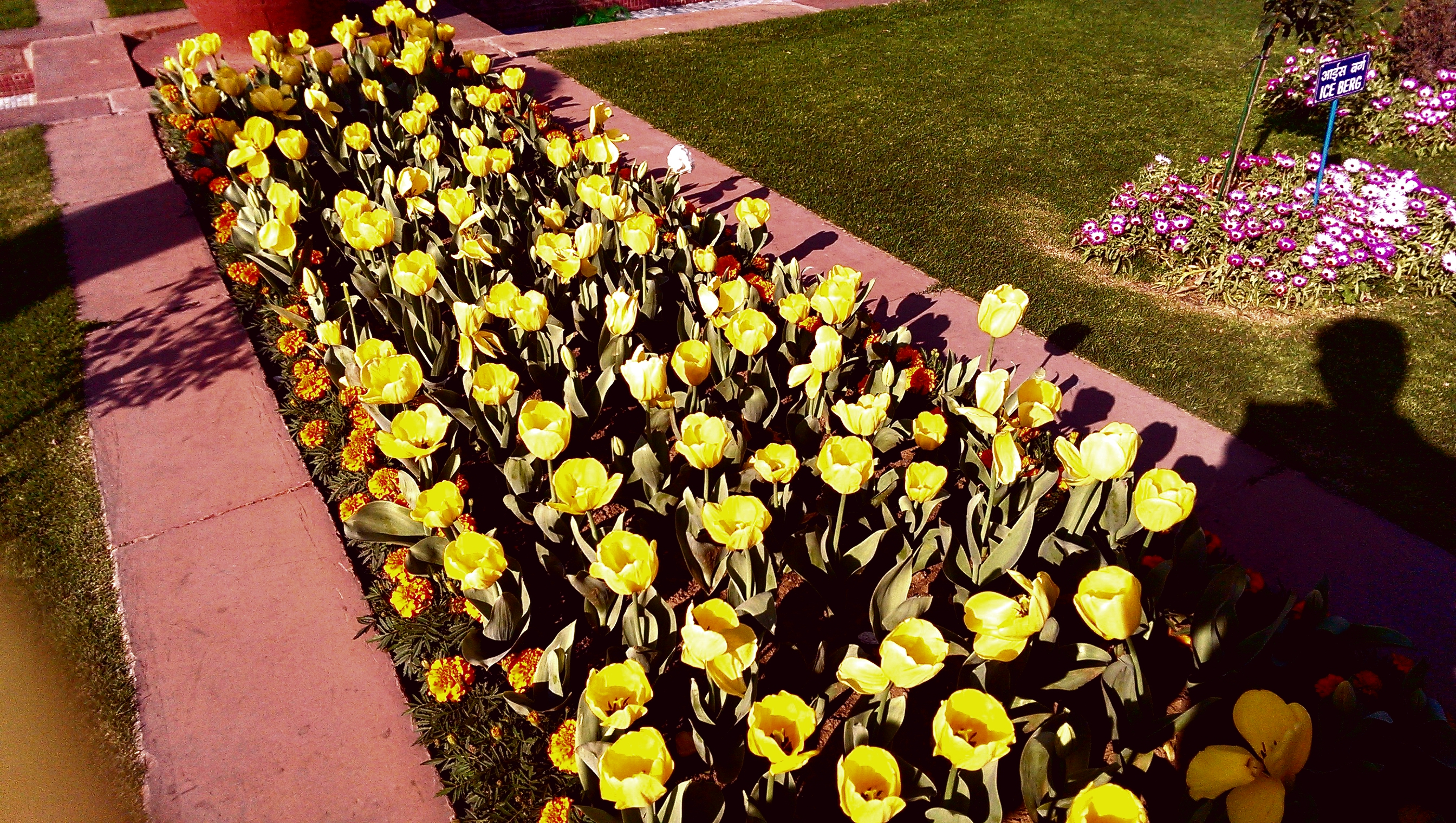 mughal gardens